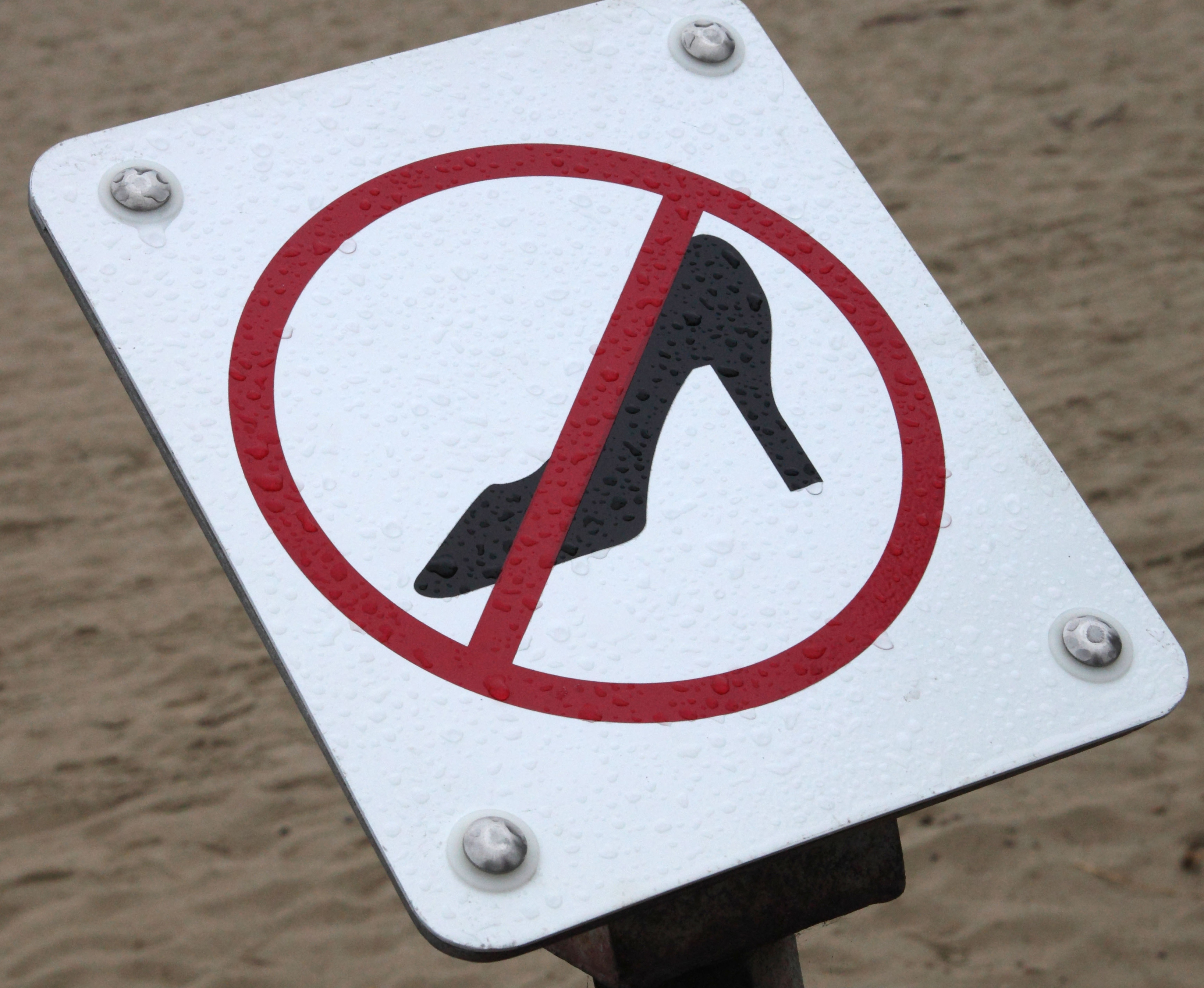 No heels on the pier in Santa Barbara, California.